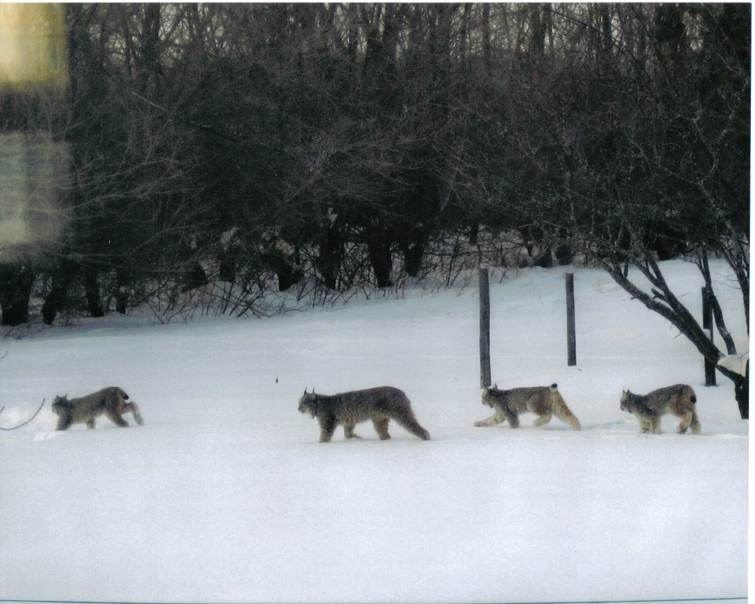 Lynx family photographed at the Nykiforuk farm near Dauphin, Manitoba